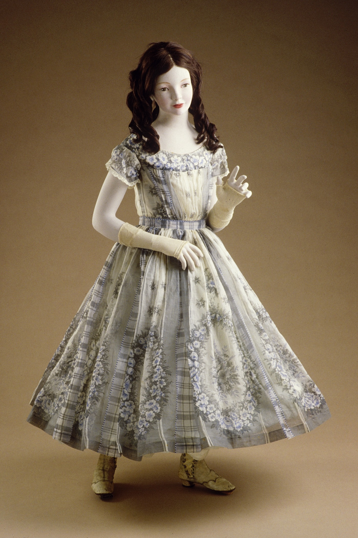 England, circa 1860 Costumes; principal attire (entire body) Printed organdy Gift of Mrs. P.A. Appleyard (M.67.35.2) Costume and Textiles